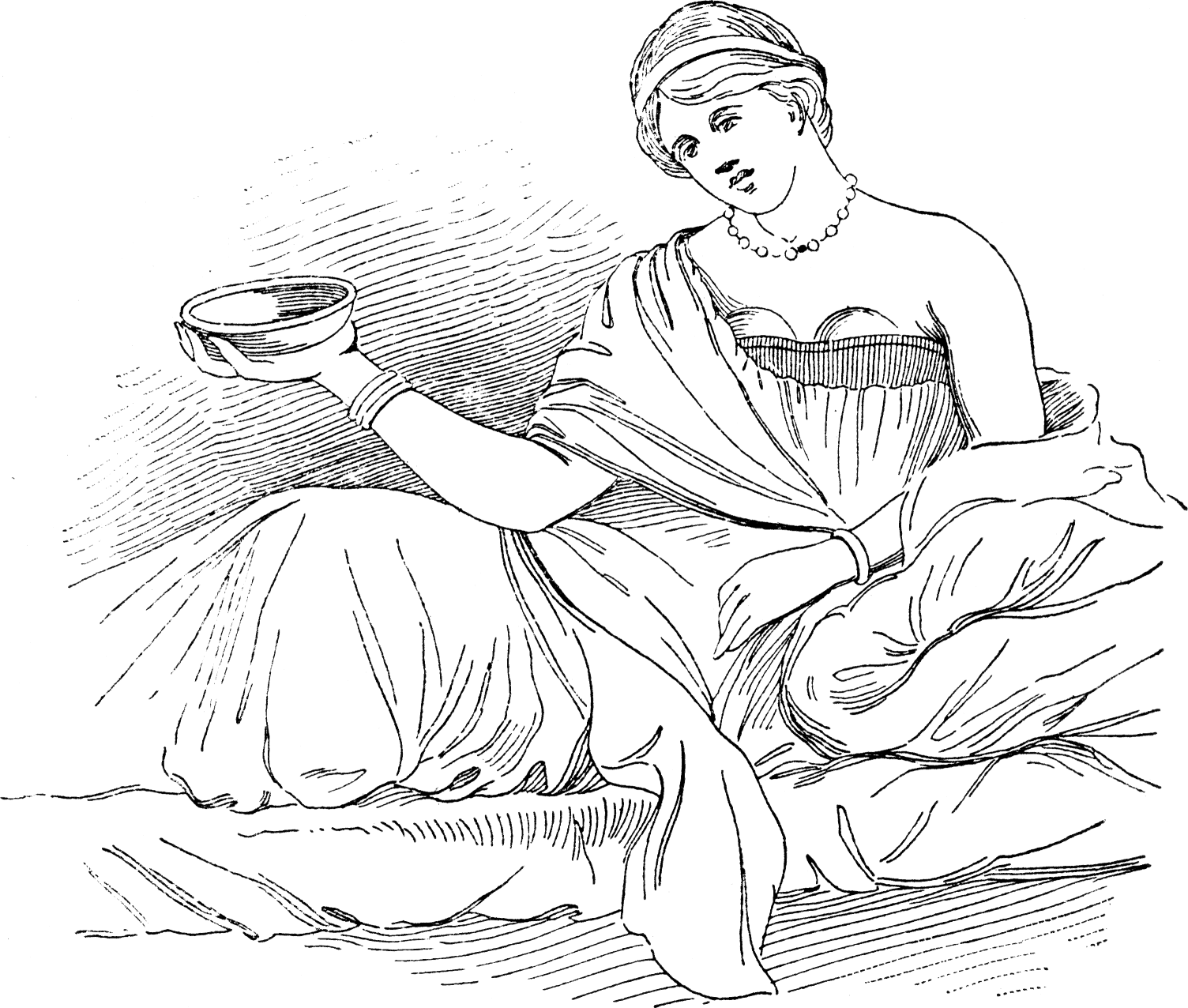 Fasciæ mamillares of Roman women.